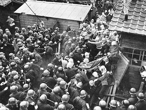 1959–60 Mitsui-Miike Labor Dispute